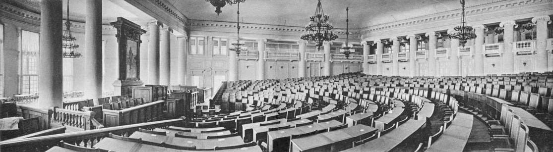 hall of the Sessions of the First State Duma in the Tauride Palace, St Petersburg.